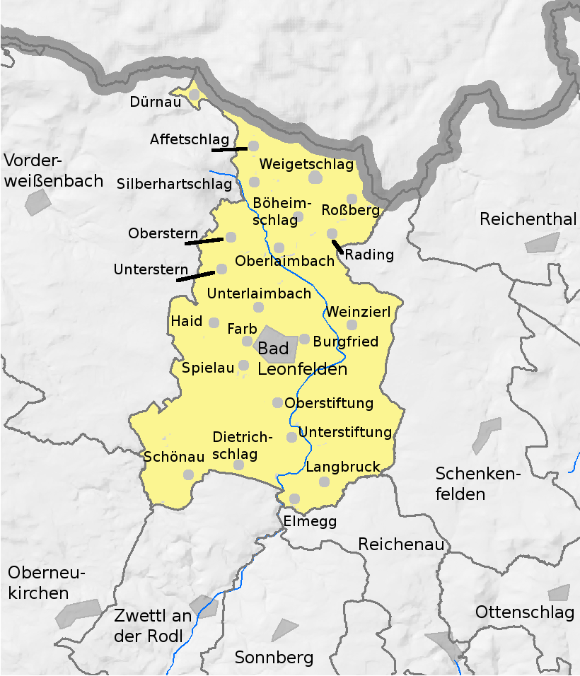 Municipality map of Bad Leonfelden with neighbour municipalities